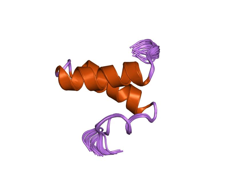 Cartoon representation of the molecular structure of protein registered with 1pv0 code.